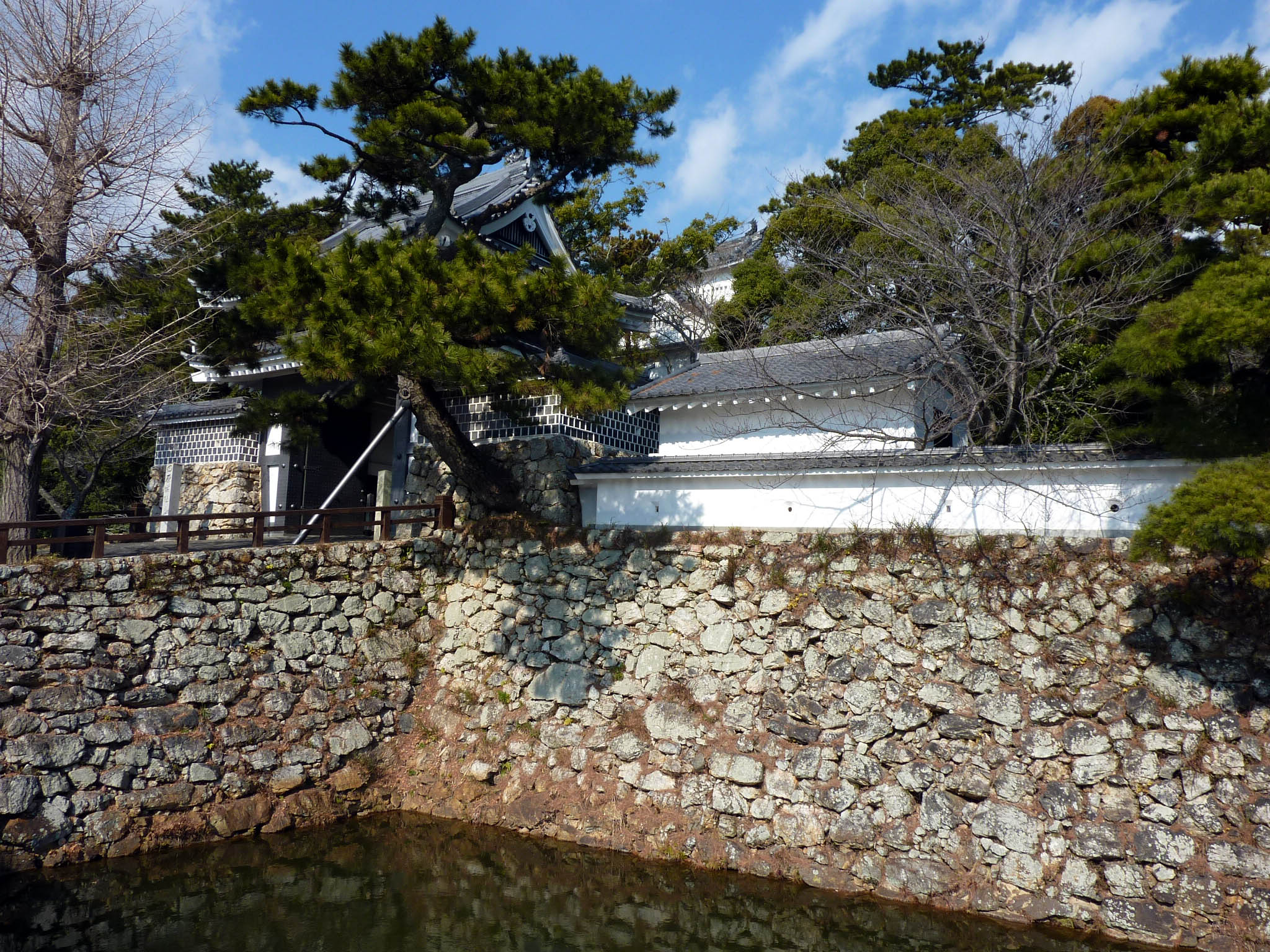 Restored SakuraMon (lit. cherry blossom gate) of Tahara Castle in Japan